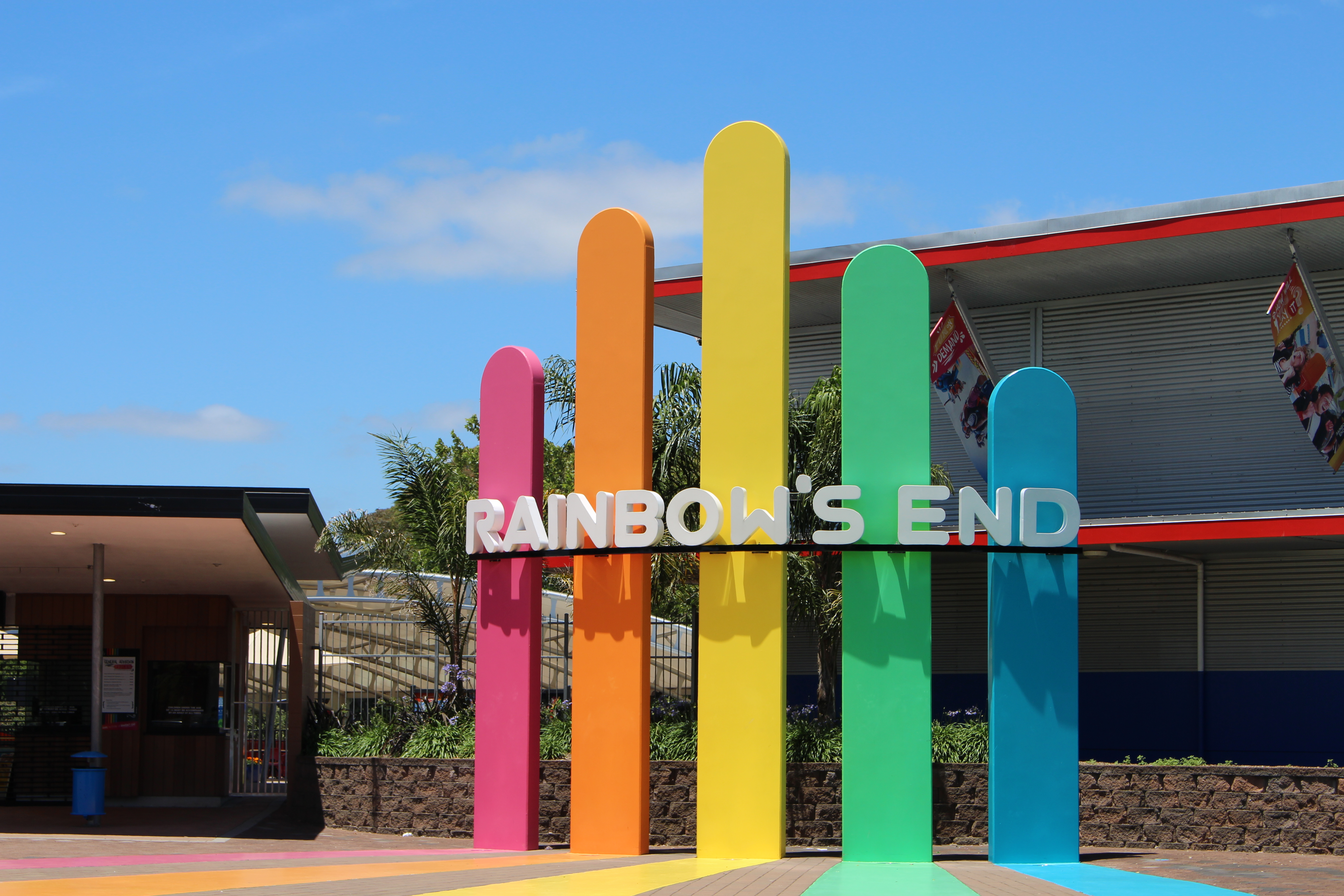 Rainbow's End Pillars located at the main entrance